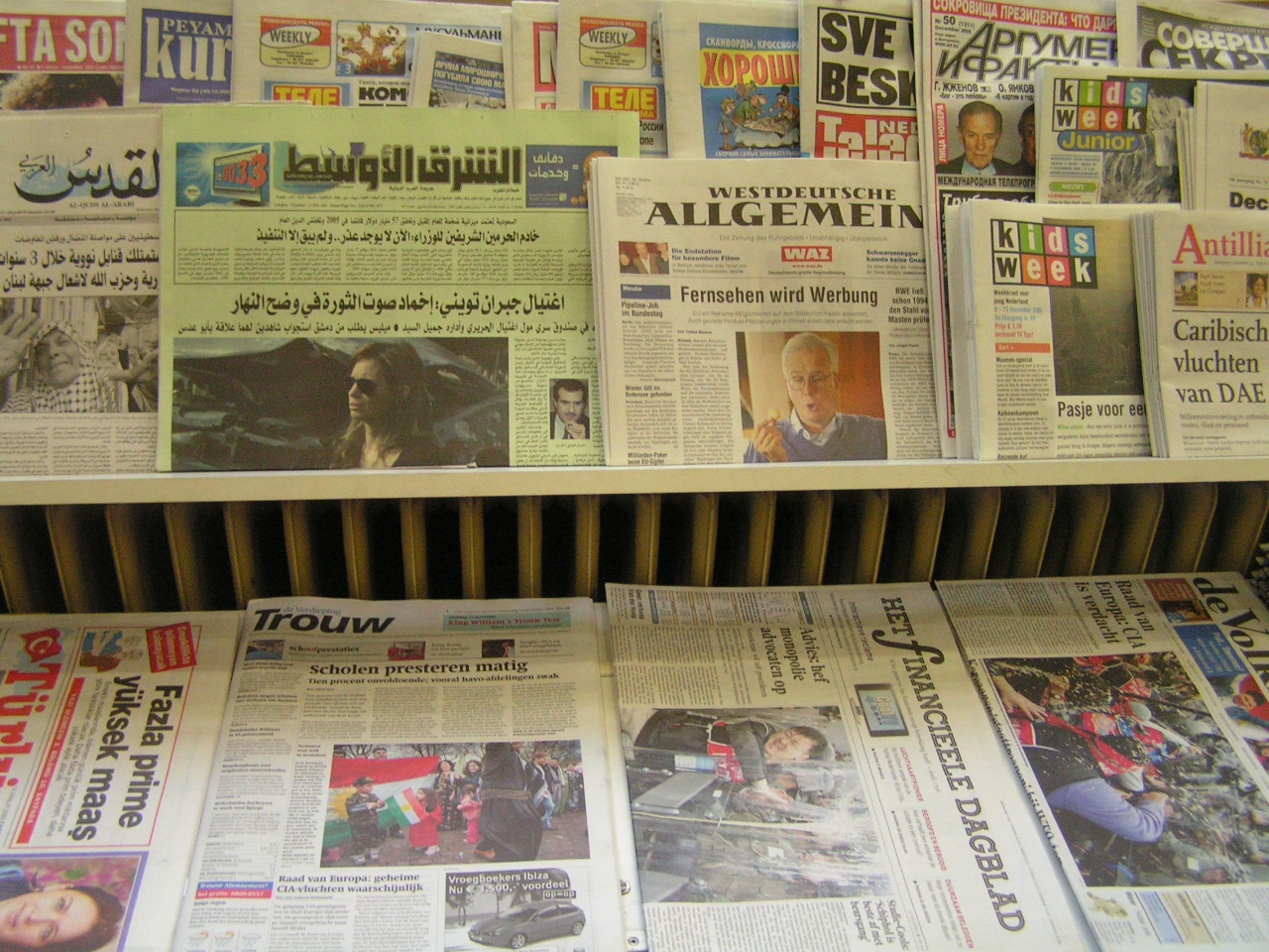 Picture of international newspapers taken at a Dutch newsstand